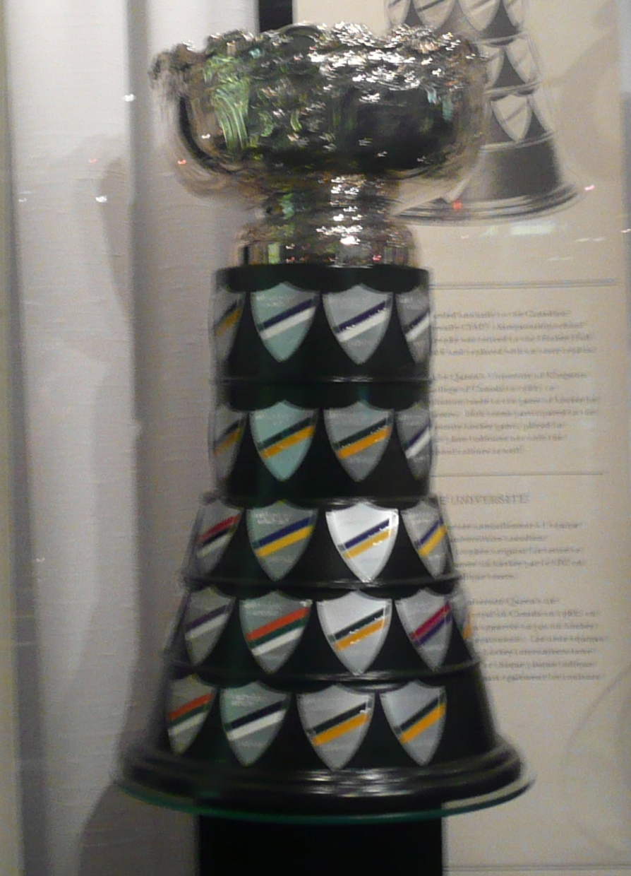 The University Cup, on display at the Hockey Hall of Fame.